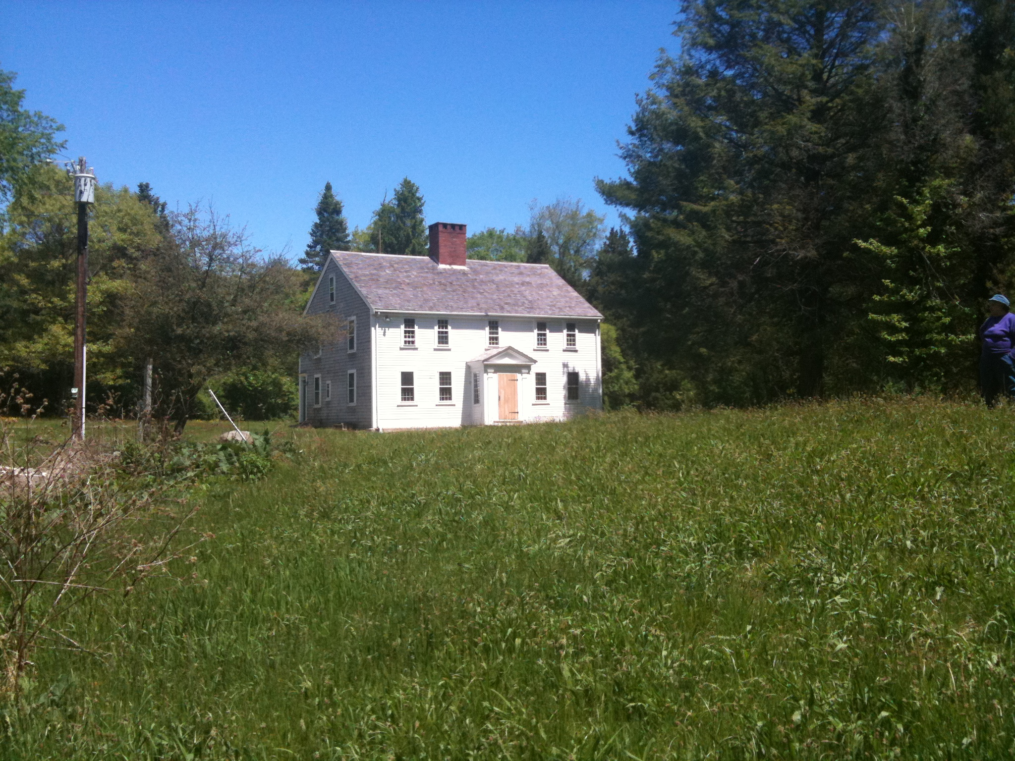 Photo of the Stetson-Ford House in Norwell, Massachusetts, US. The house is on the National Register of Historic Houses and Buildings.